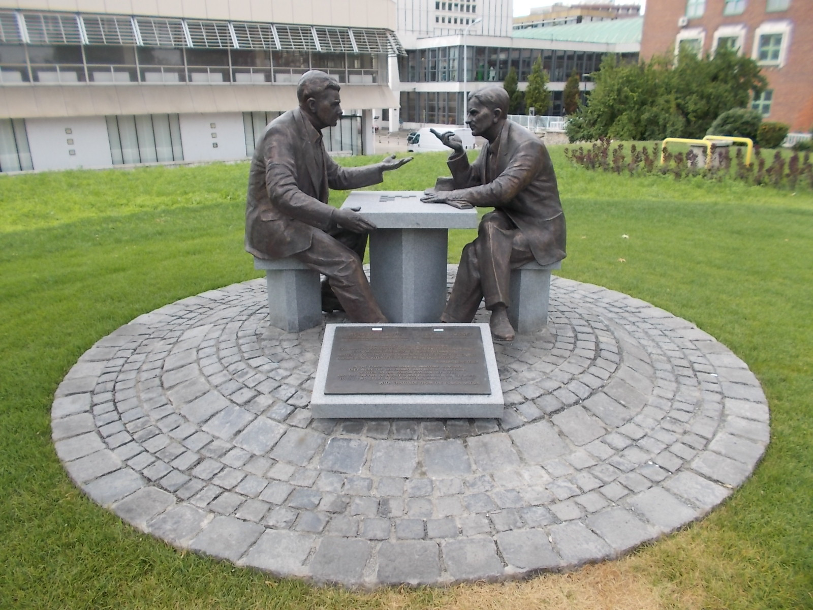 Henryk Slawik and József Antall Sr. statue / memorial / monument ( Wladyslaw Dudek, 2017 works, Bronze, WWII and Holocaust related ) - Goldmann Square, Lágymányos, Újbuda, Budapest, Hungary.